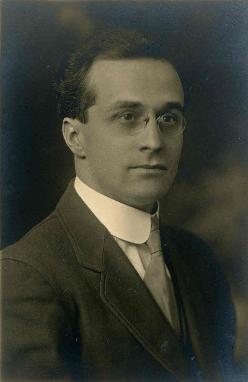 Portrait of Canadian artist A.M. Pattison, circa 1920